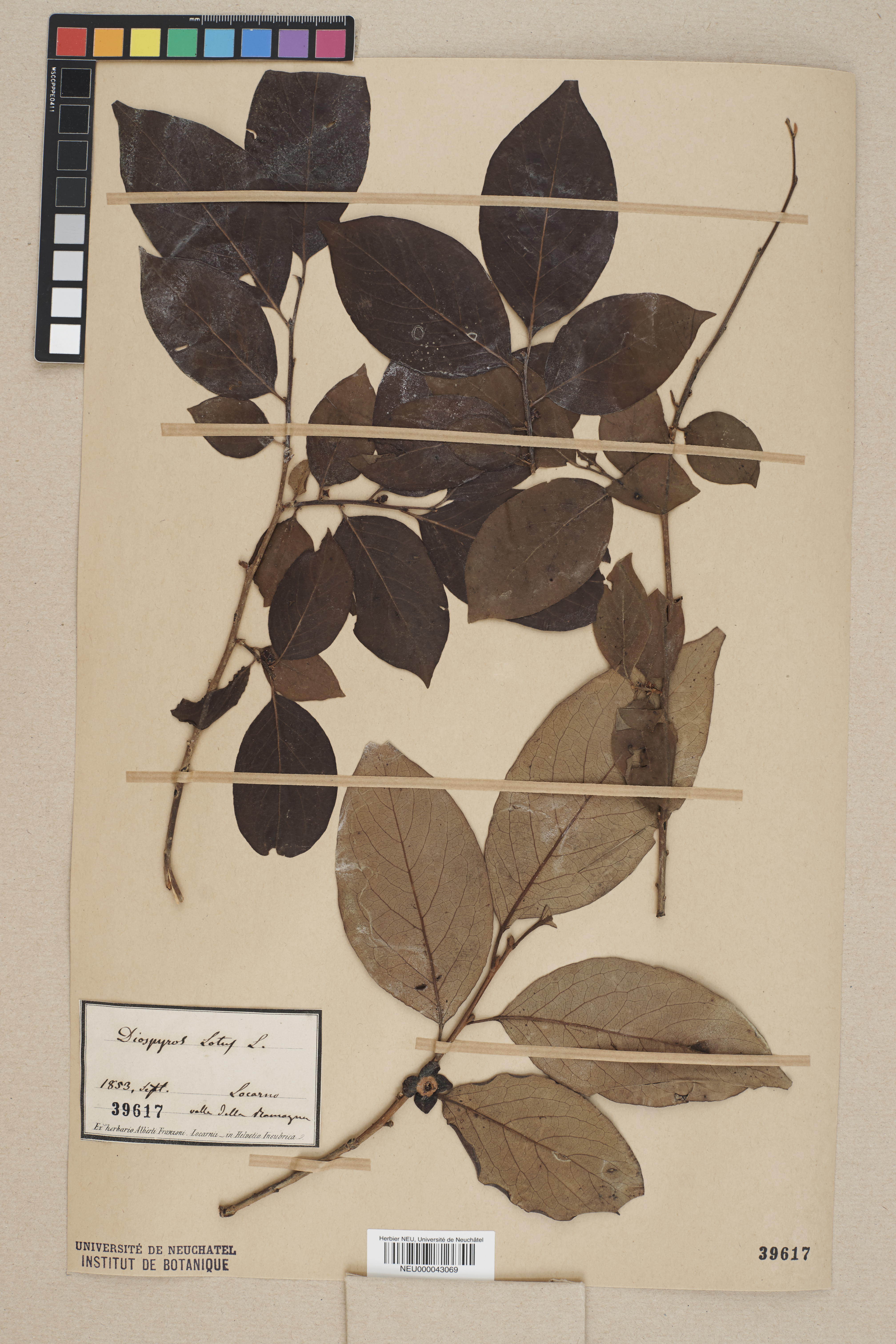 Dried pressed specimen of Diospyros lotus